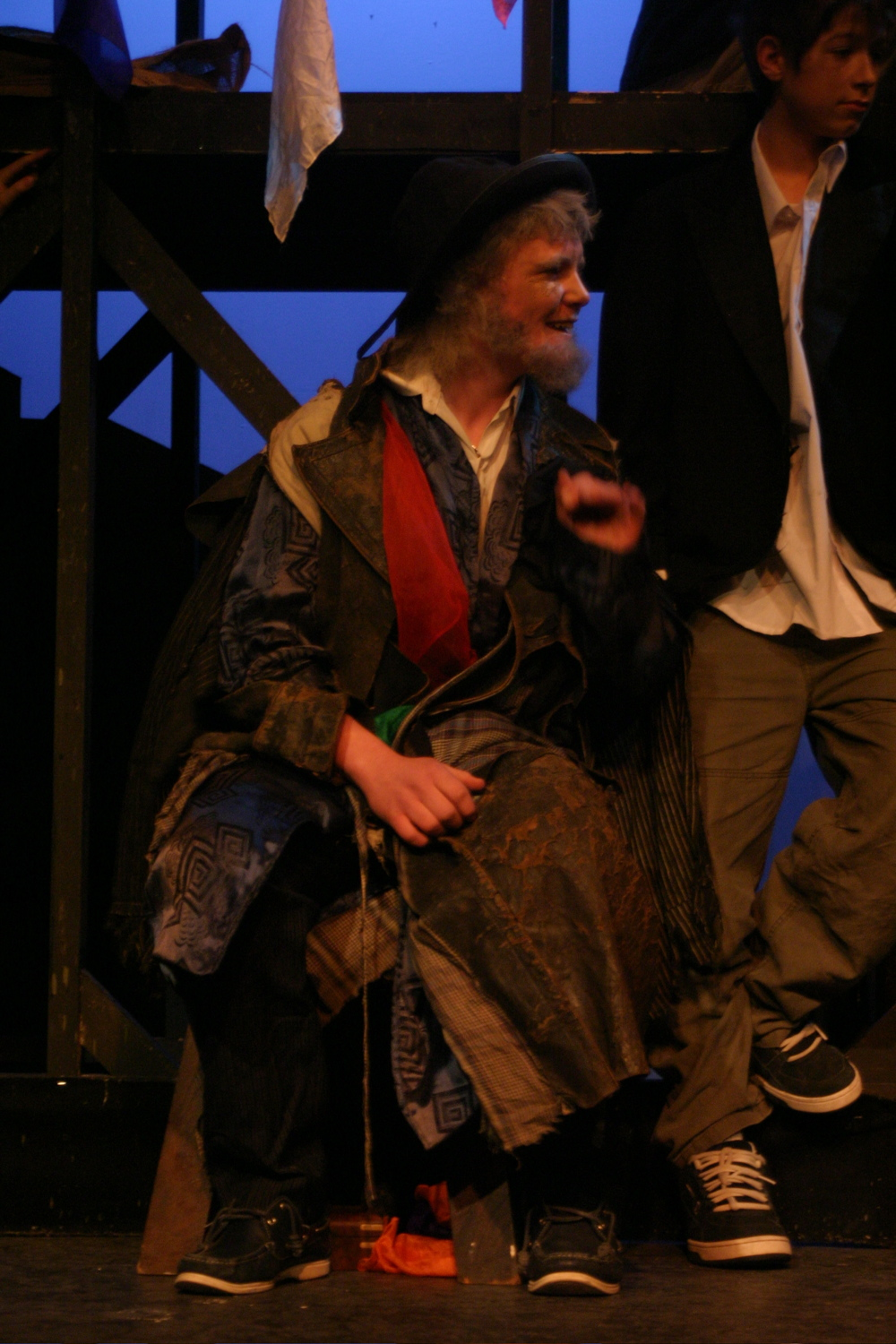 Barry Lynch as Fagan and Conor Hanson as a Fagan's Boy in Glenstal Abbey Schools production of Oliver (2005)